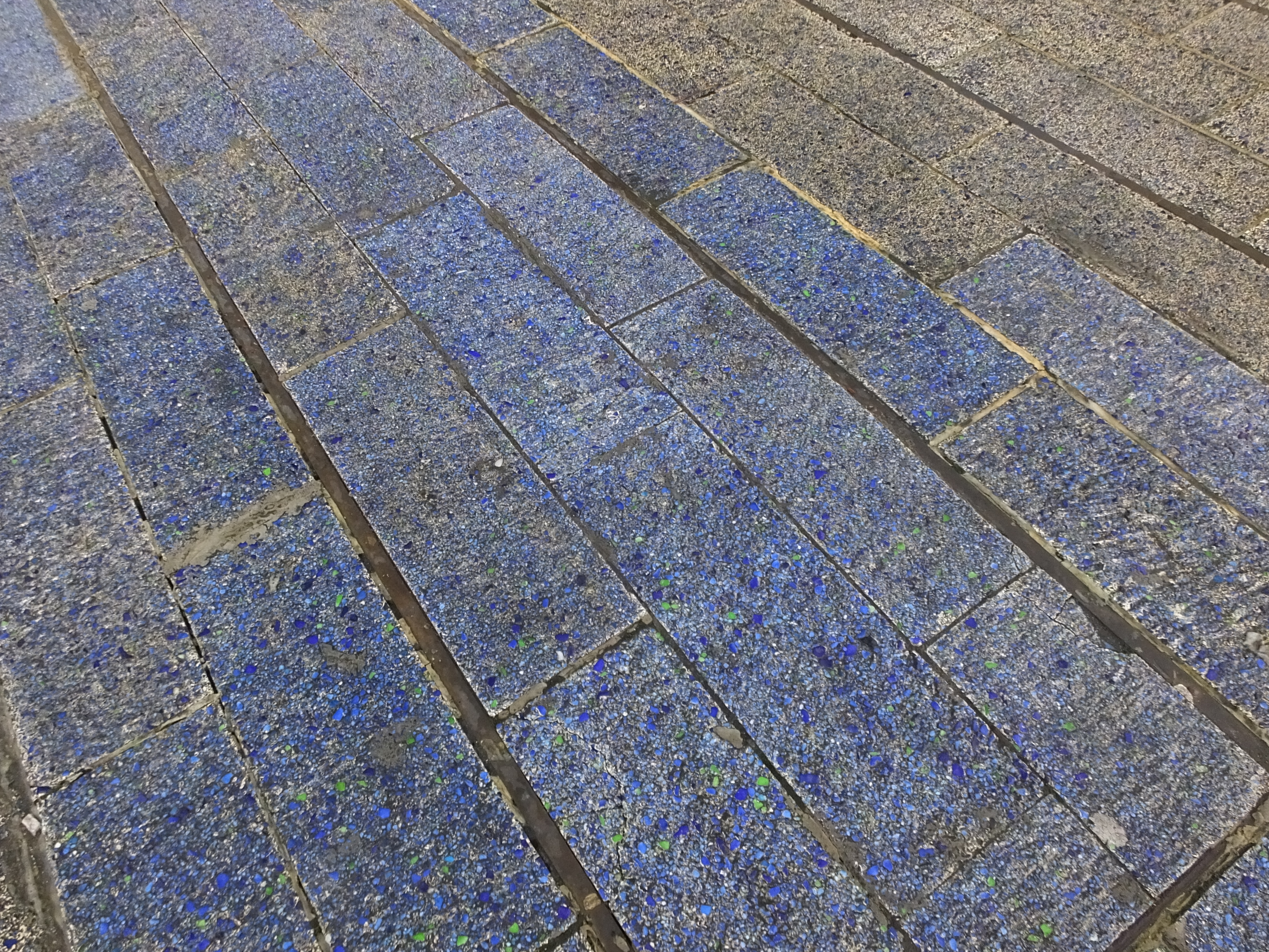 Blue Carpet outside the Laing Art Gallery, in Blue Carpet Square, Newcastle